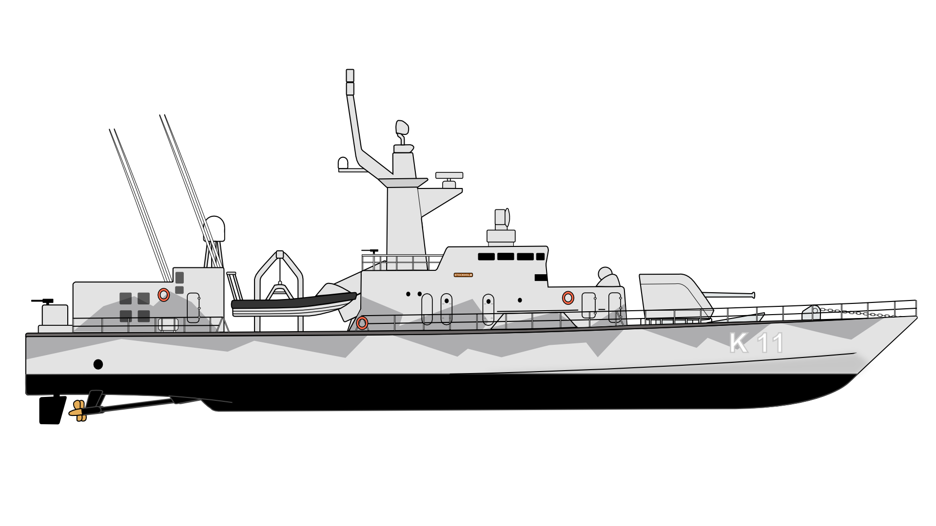 Swedish corvette HMS Stockholm, commissioned in 1985.